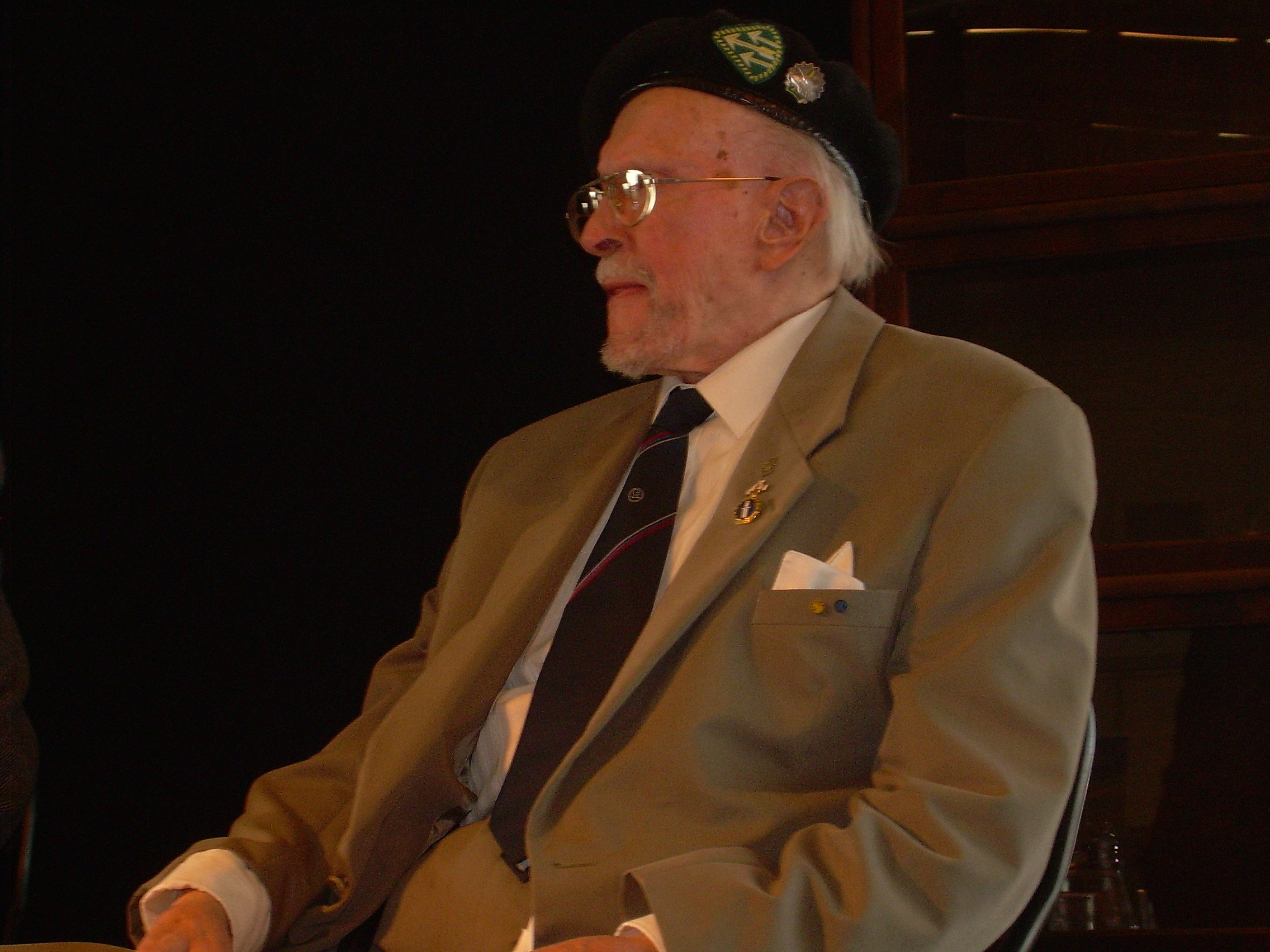 Finnish writer Reino Lehväslaiho at the Turku International Book Fair.